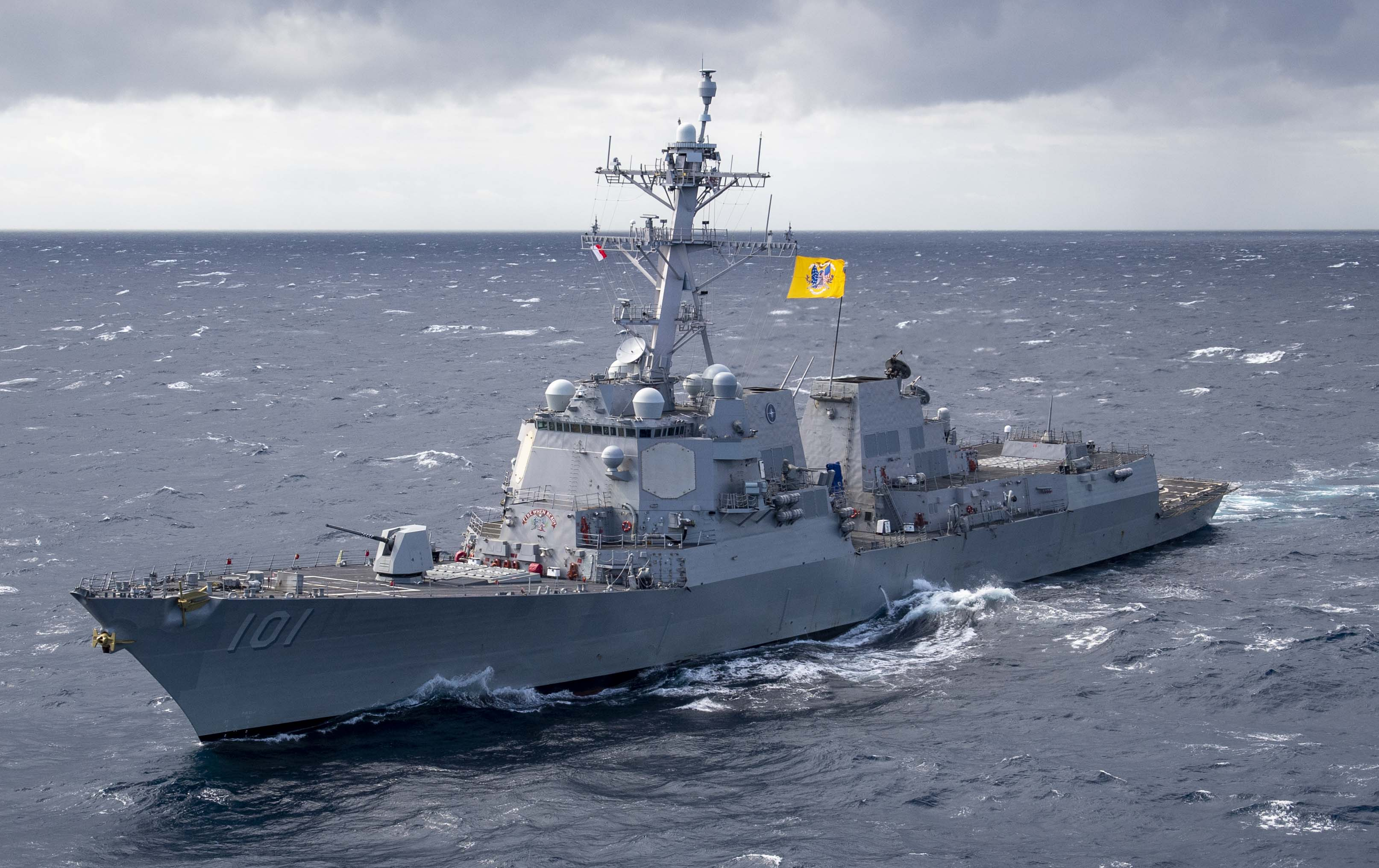 ATLANTIC OCEAN (Aug. 25, 2019) The guided-missile destroyer USS Gridley (DDG 101) transits the Atlantic Ocean. Gridley is underway on a regularly-scheduled deployment as the flagship of Standing NATO Maritime Group 1 to conduct maritime operations and provide a continuous maritime capability for NATO in the northern Atlantic. (U.S. Navy photo by Mass Communication Specialist 2nd Class Cameron Stoner/Released)190825-N-UB406-1428